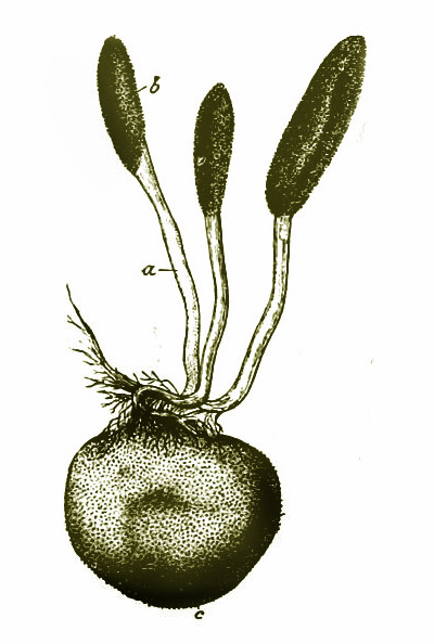 Cordyceps "interfering" false Elaphomyces truffle (Elaphomyces granulatus ?) , from a drawing by Anton Joseph Kerner von Marilaun (1831 1898)